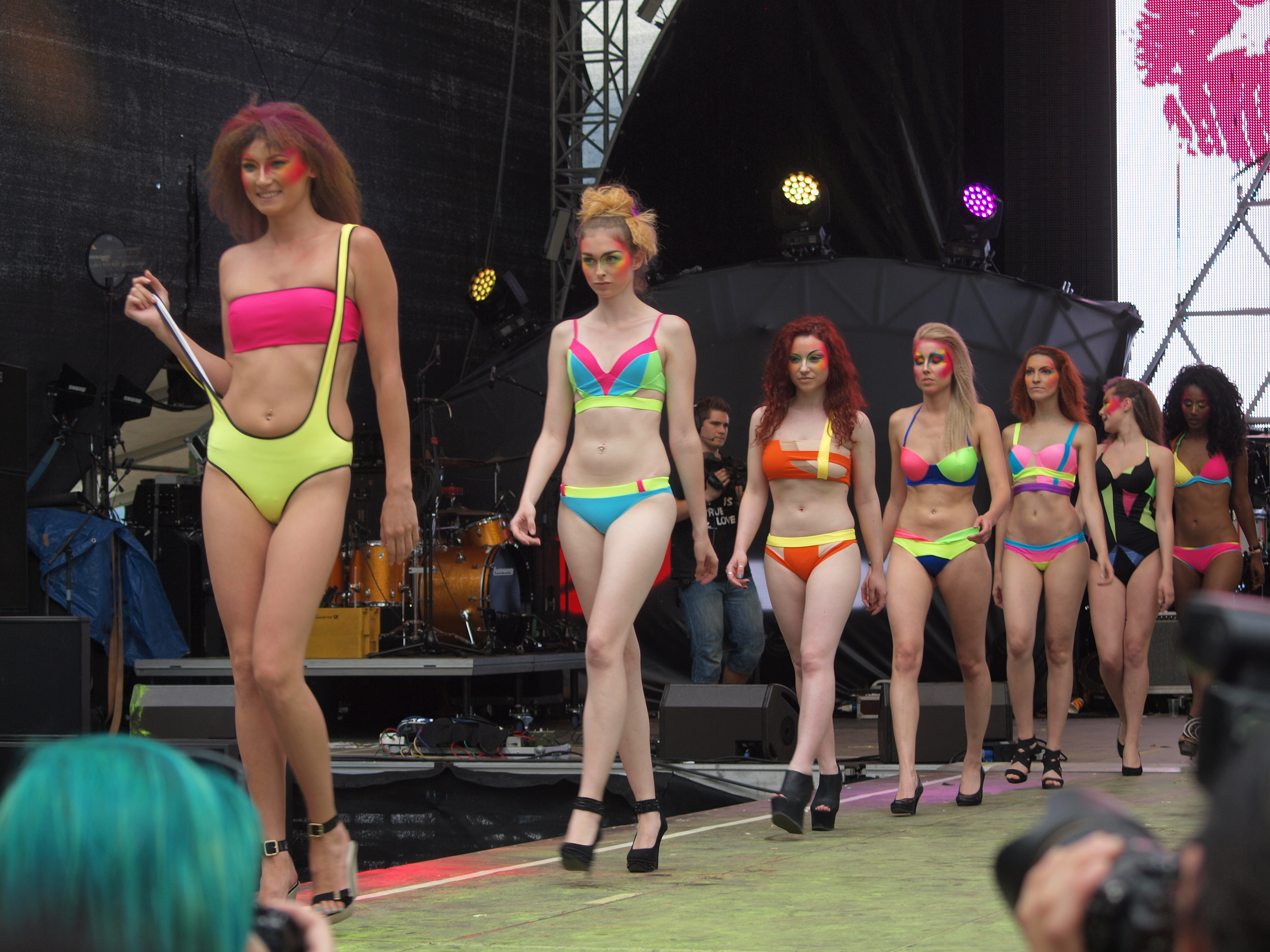 A bikini fashion show at the World Bodypainting Festival 2014 in Pörtschach am Wörthersee, Carinthia, Austria.